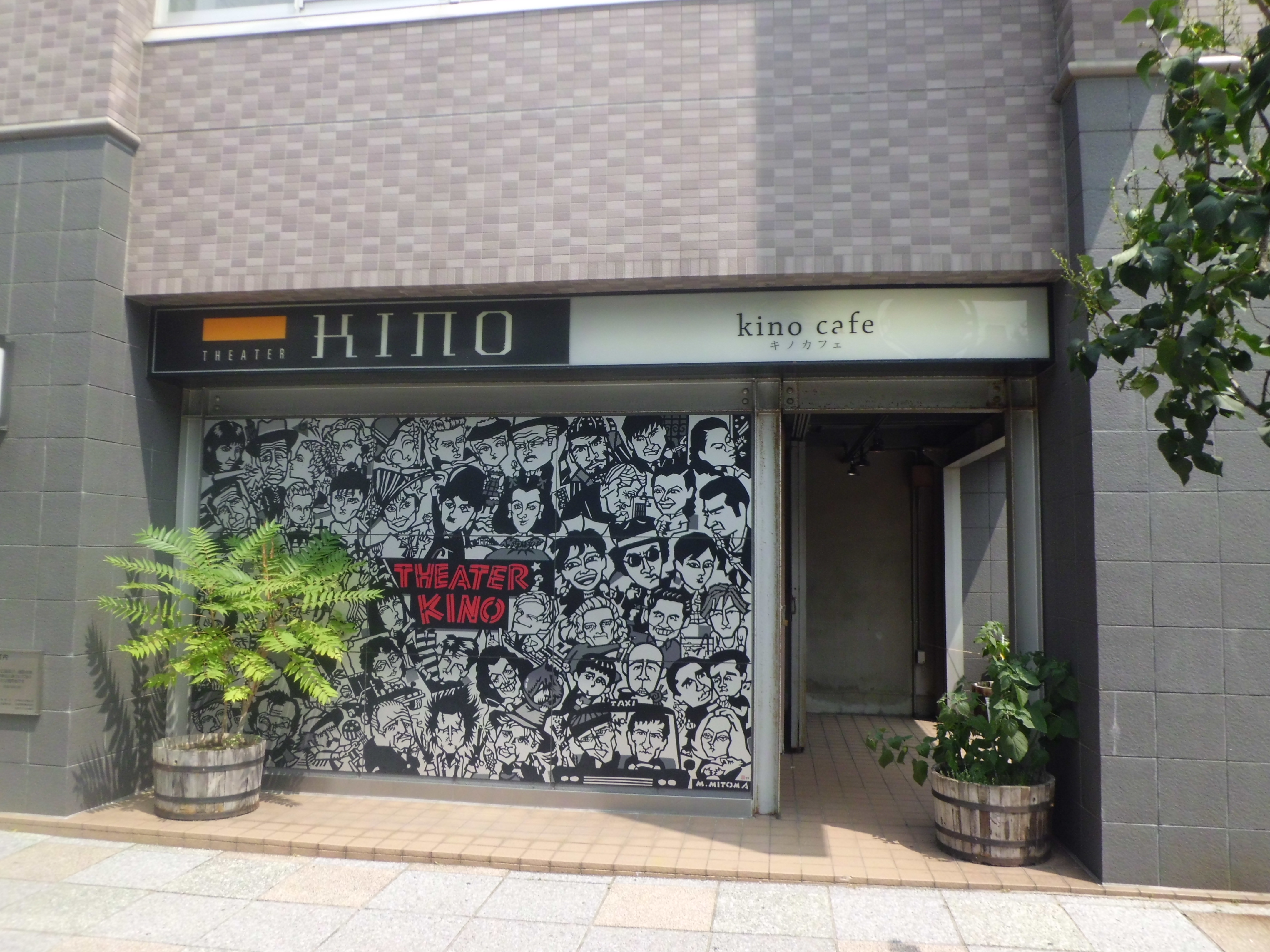 Theater Kino, a movie theater in Sapporo.